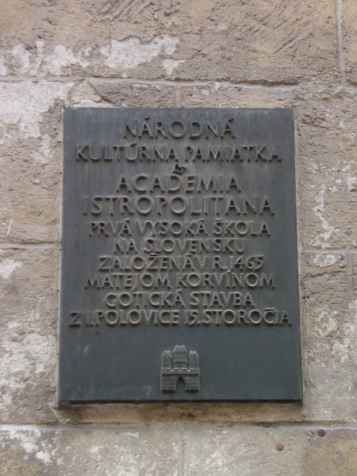 Bratislava city centre